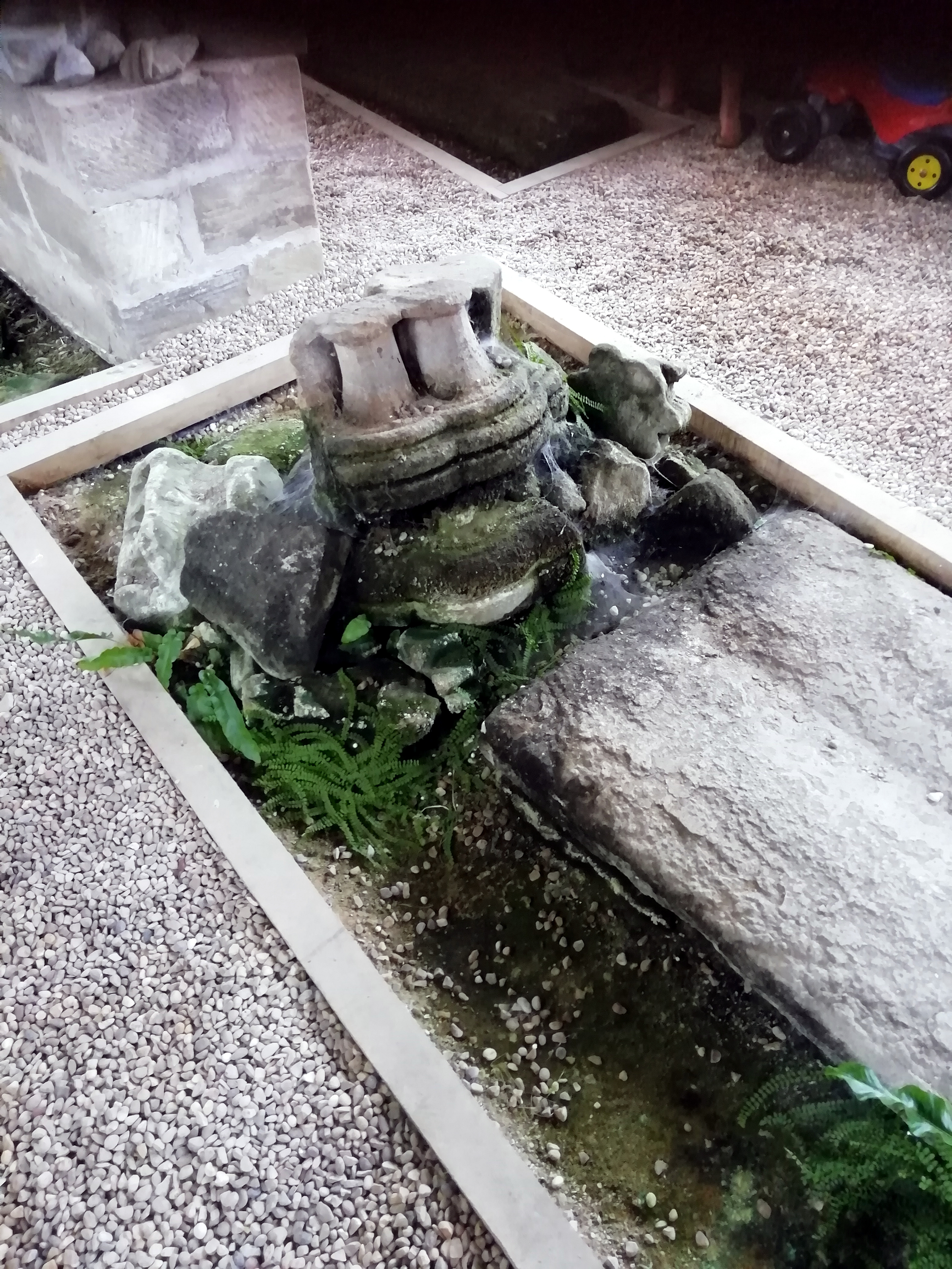 Base of a column, one of a pair that supported the centre of the fan vault covering the chapter house of Dale (Stanley Park) Abbey. Now in the museum at the Abbey ruins.